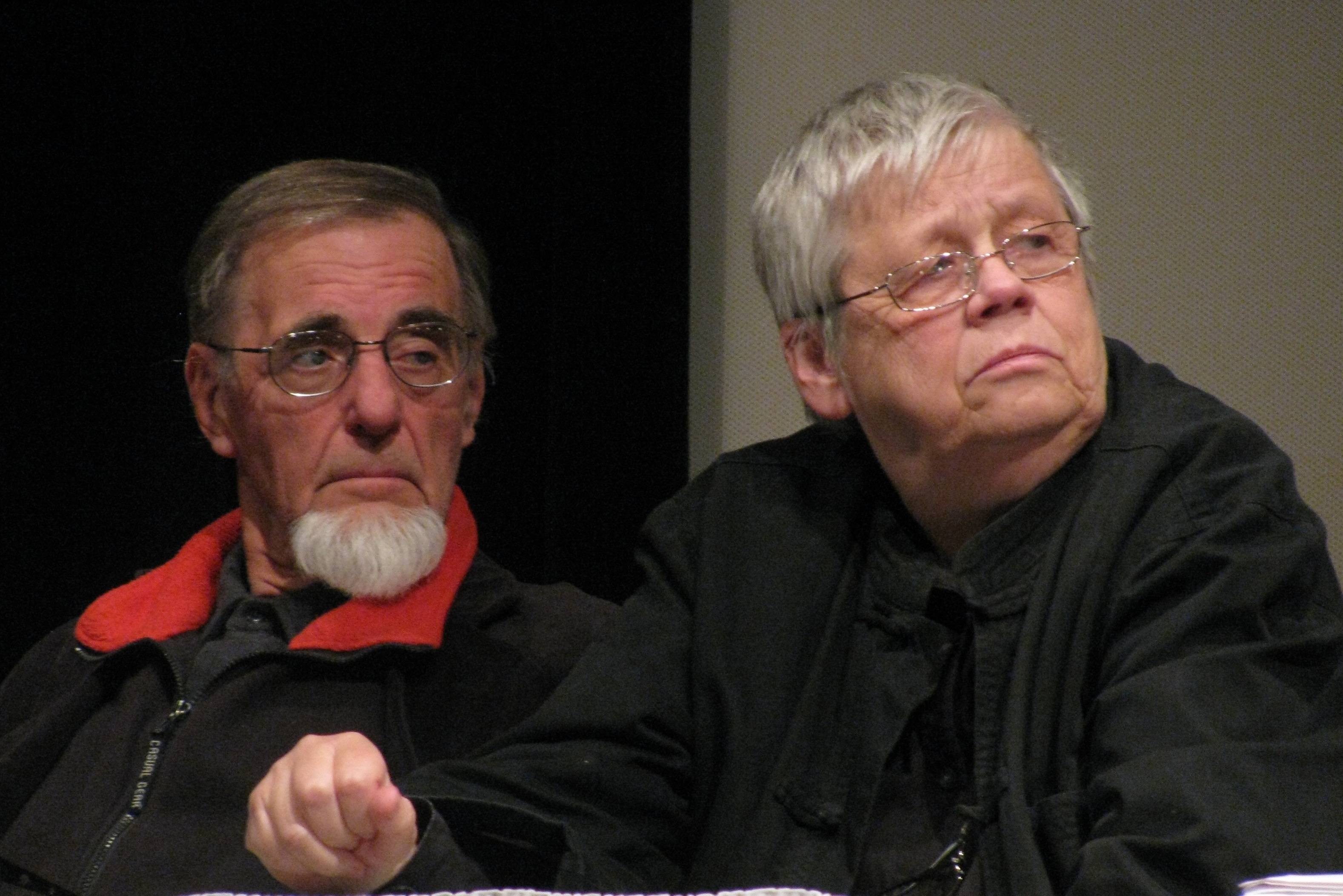 Steina and Woody Vasulka, at the Celebration of the 35th Anniversary of the Founding of Media Study (University at Buffalo)